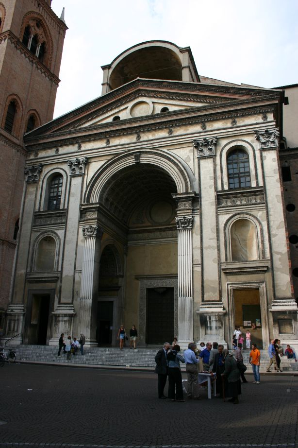 Mantova, Italy, Sant'Andrea